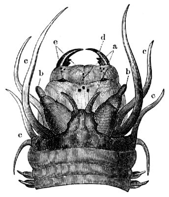 Head of the polychaete worm Nereis sp. with everted pharynx. Pointers: a – antennae, b – palps, c – peristomial cirri, d – jaws, e – ?paragnaths.